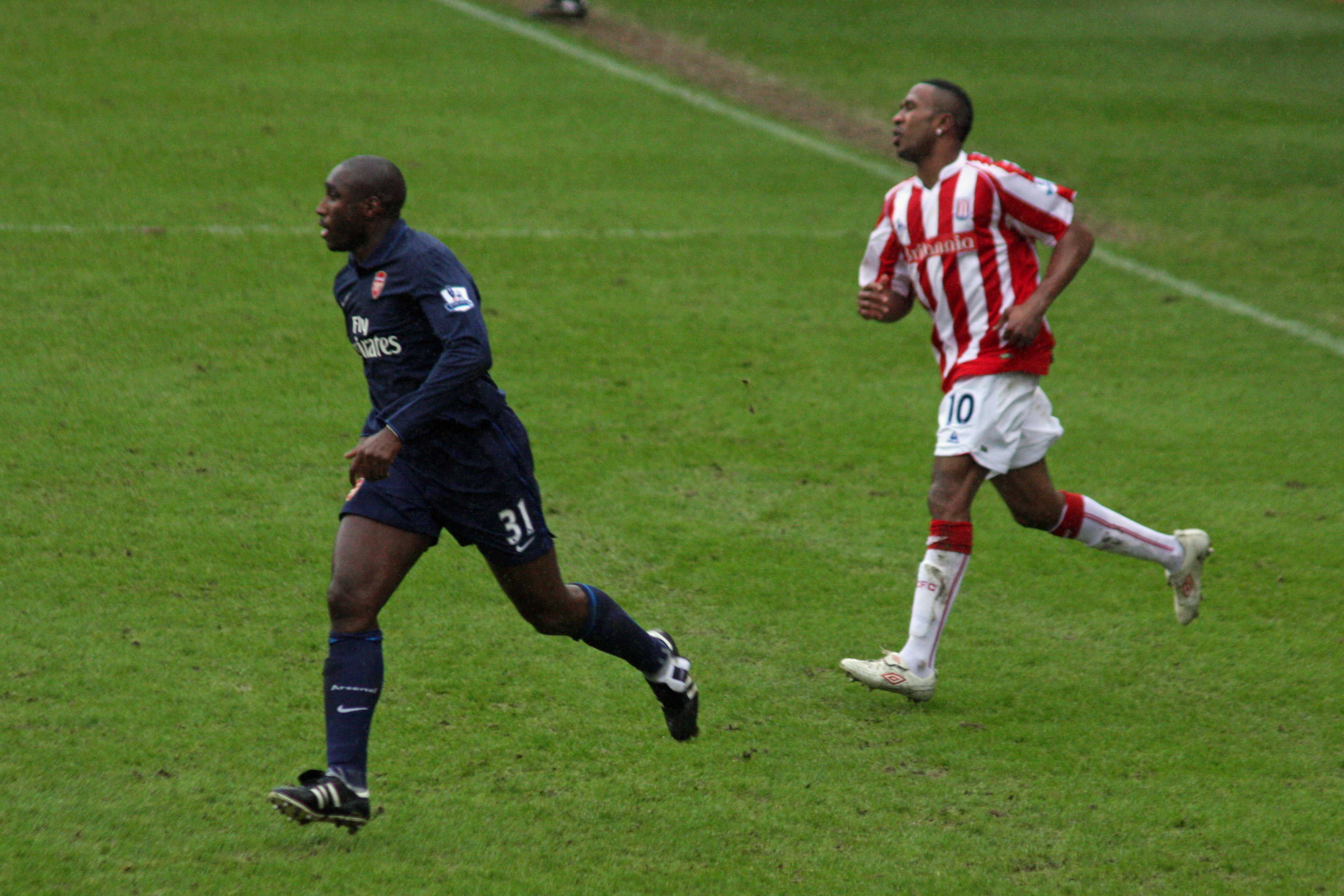 Sol Campbell of Arsenal, Ricardo Fuller of Stoke City.